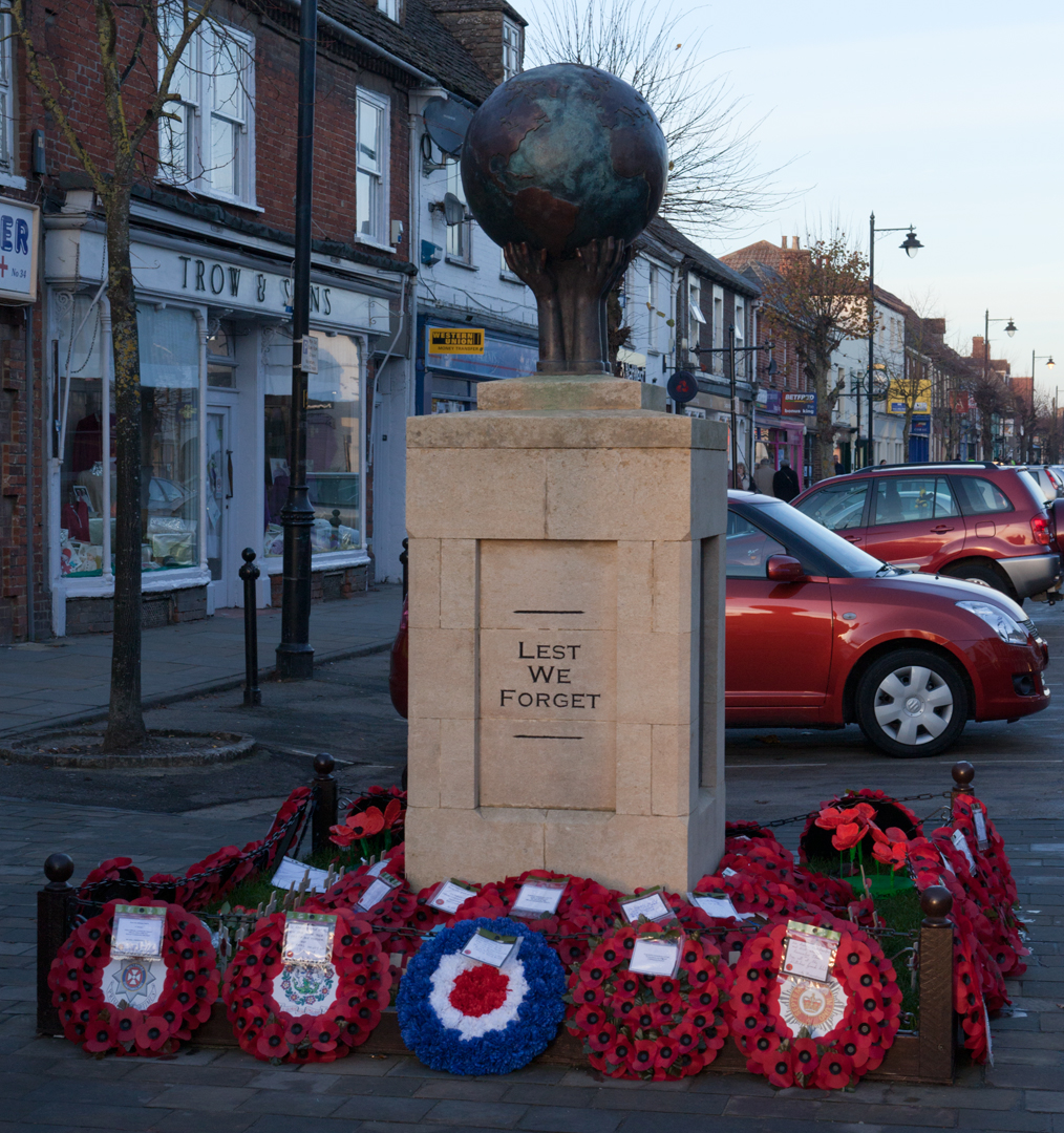 Photo taken on 16 November, 2010; following yet another Repatriation through Wootton Bassett.